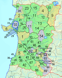 Municipalities of Akita prefecture before 2004